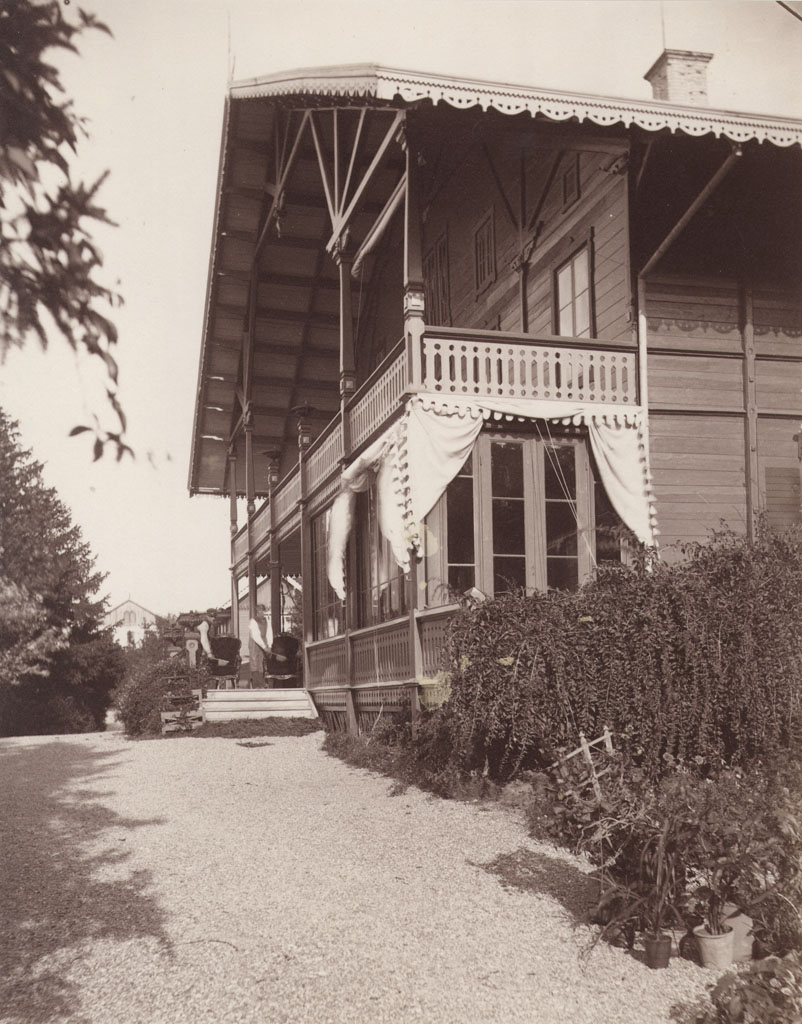 Fridhem, summer villa built in the 1860s for Swedish princess Eugénie. It's situated by the sea near Högklint south of Visby.